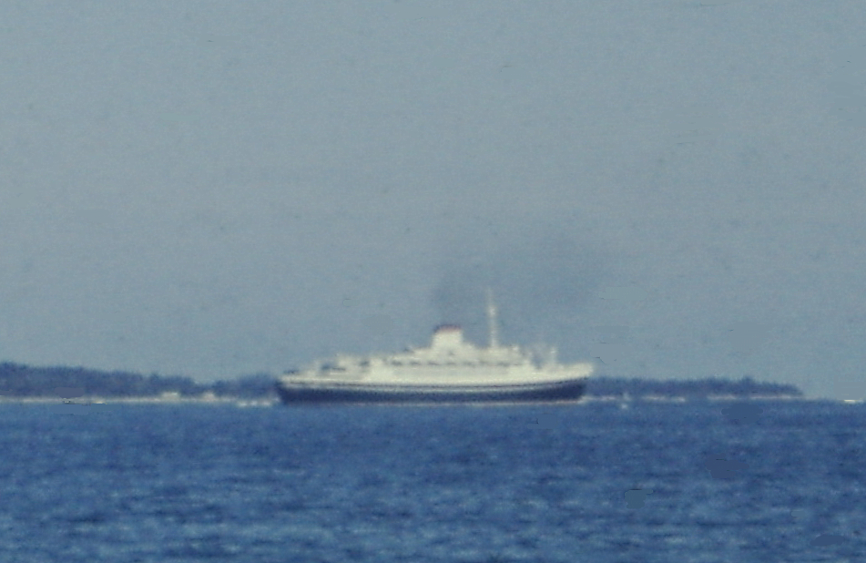 Italian passenger ship Cristoforo Colombo - Cote d'Azur, in May 1962